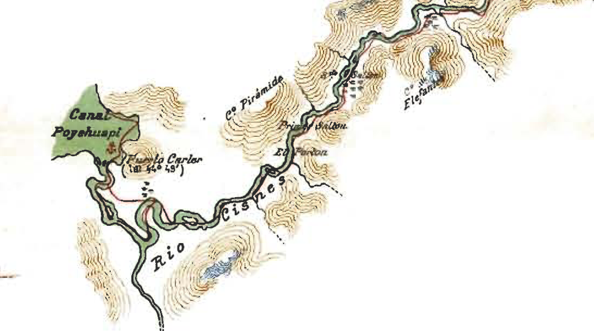 Río Cisnes, Chile. Extract of the map from Hans Steffen